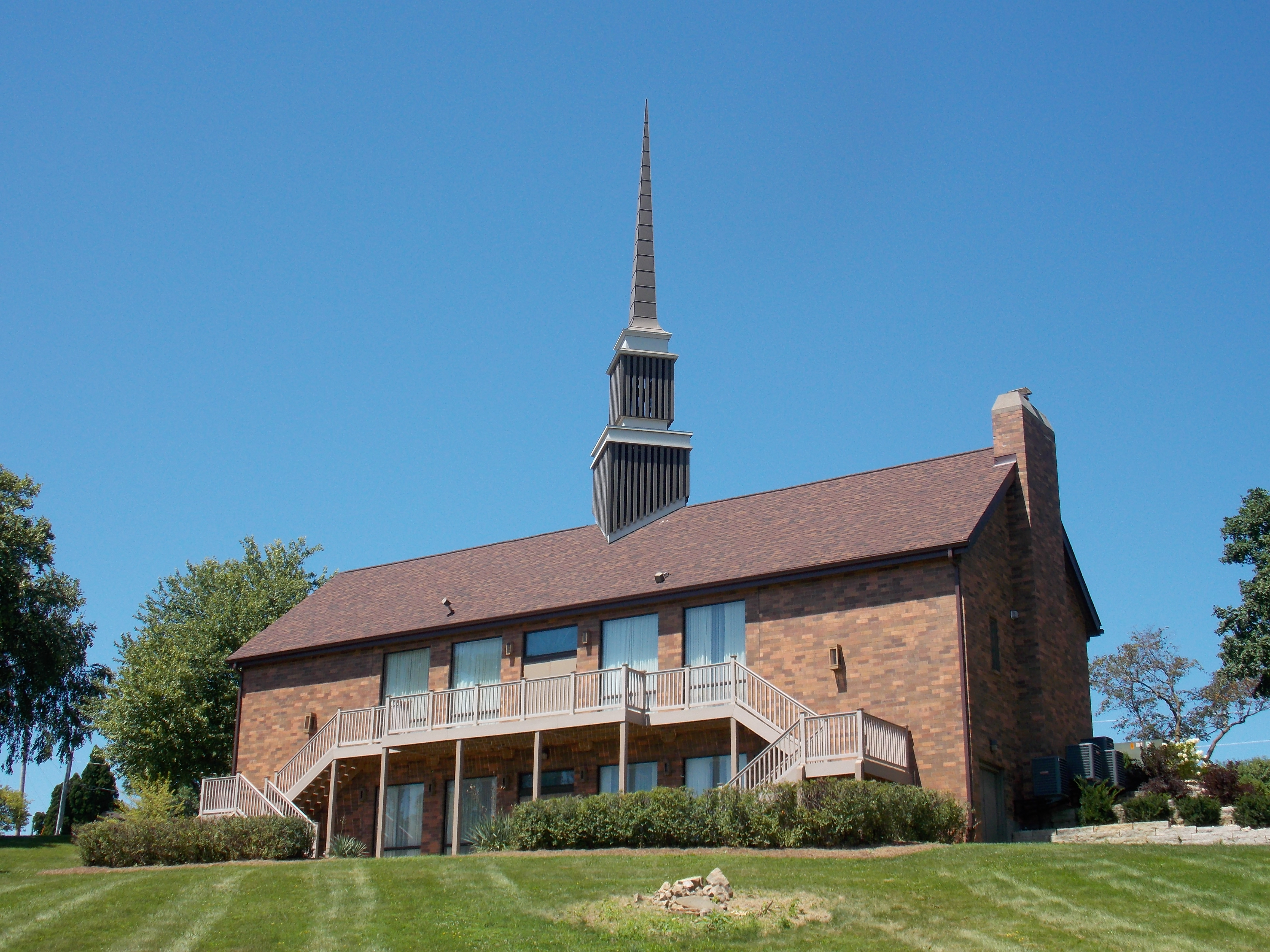 The First Church of Christ, Scientist on Fairhaven Road in Davenport, Iowa.